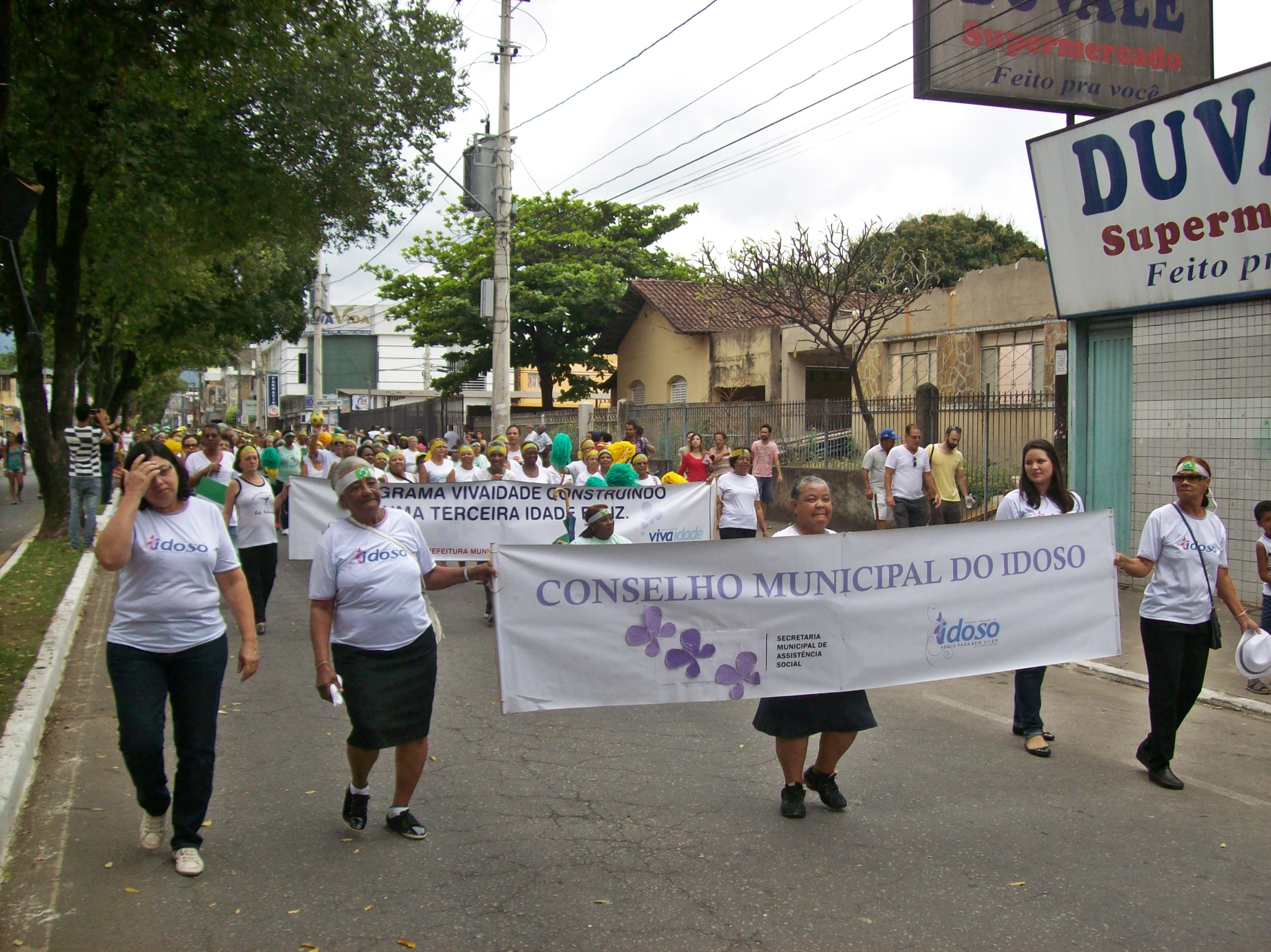 Municipal council of the elderly in the parade of the Brazil's Independence Day, in Coronel Fabriciano, Minas Gerais, Brazil.